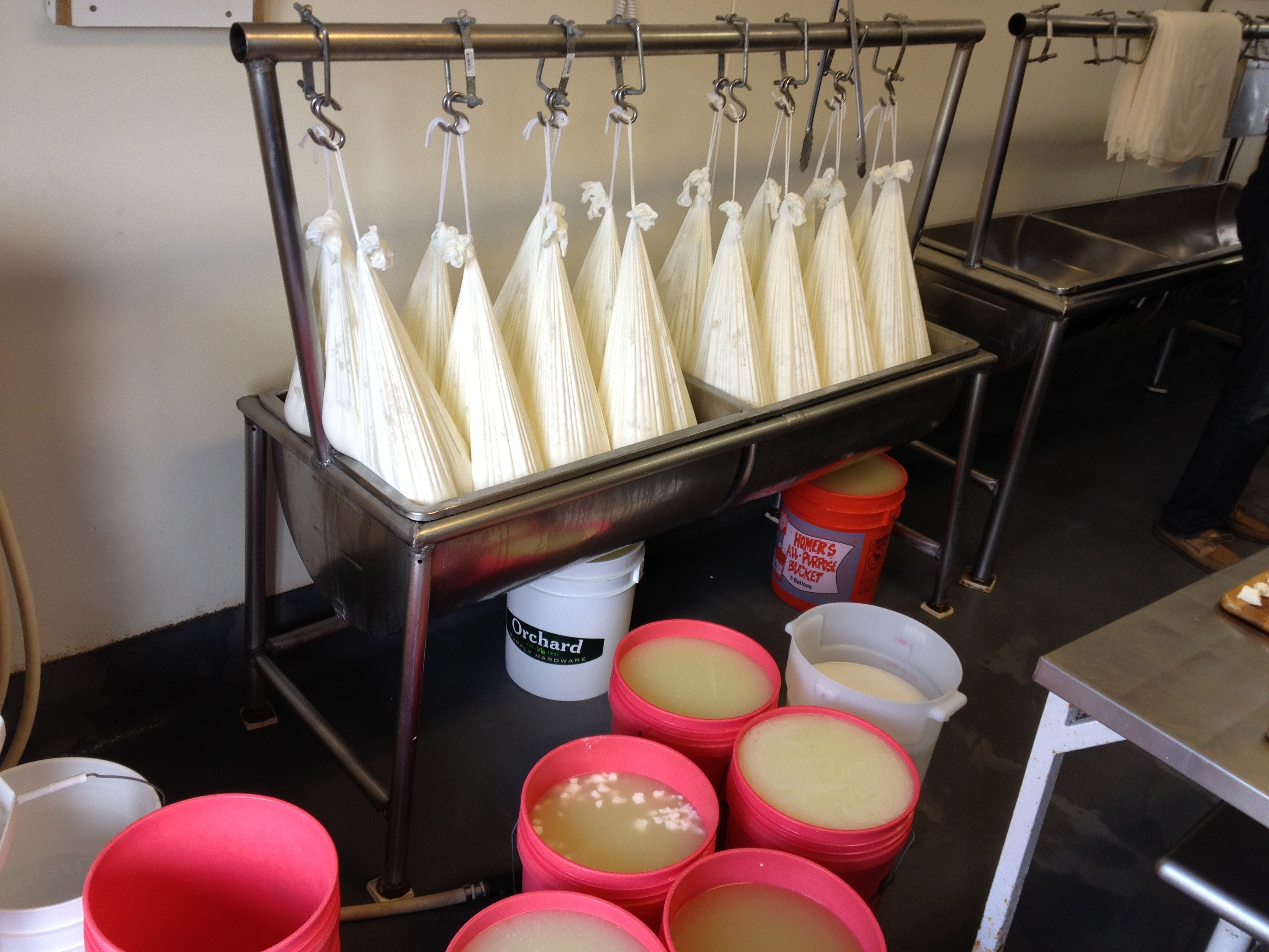 Hanging bags of curds and whey gathered in buckets.